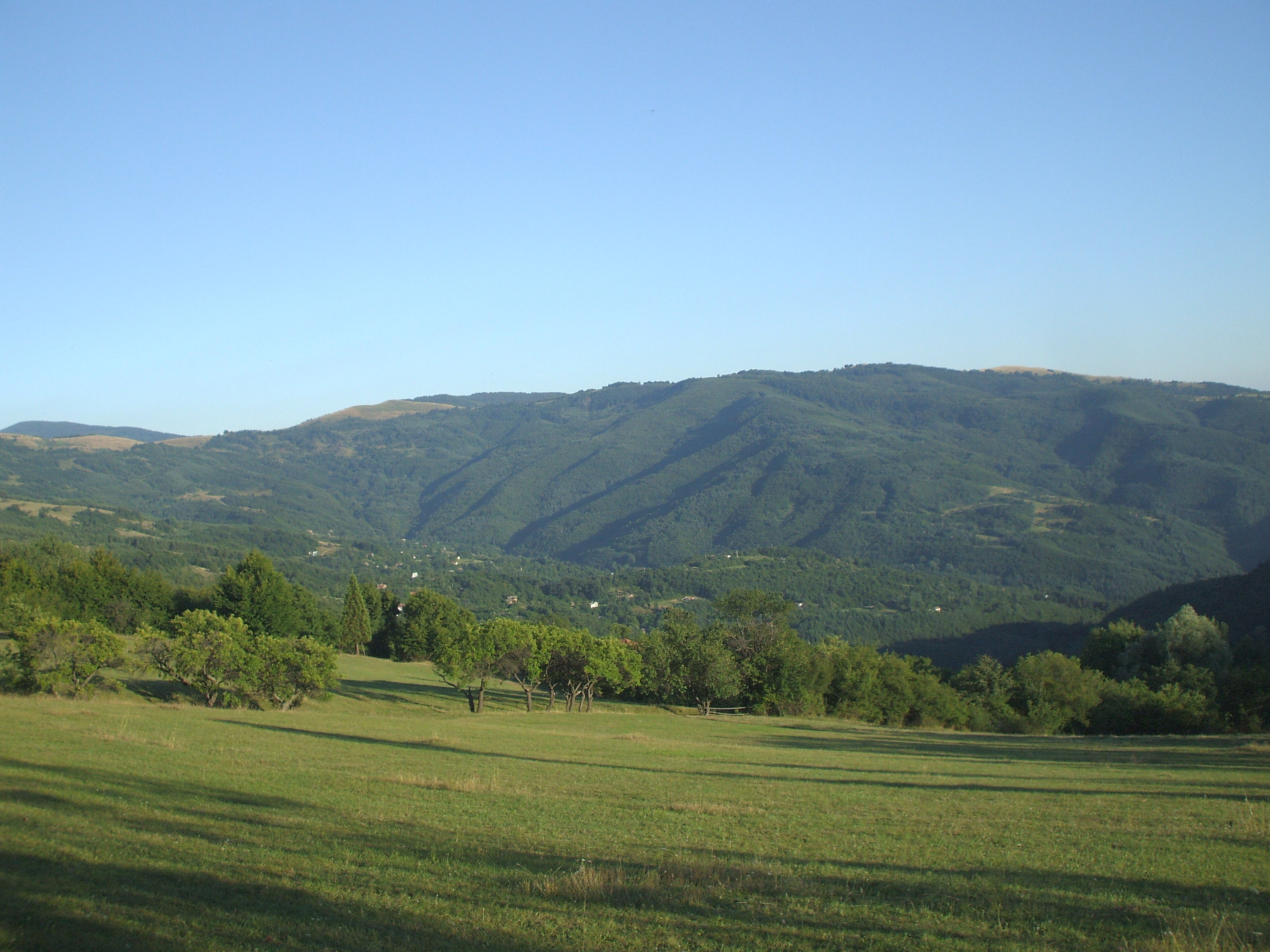 View from Livada hamlet